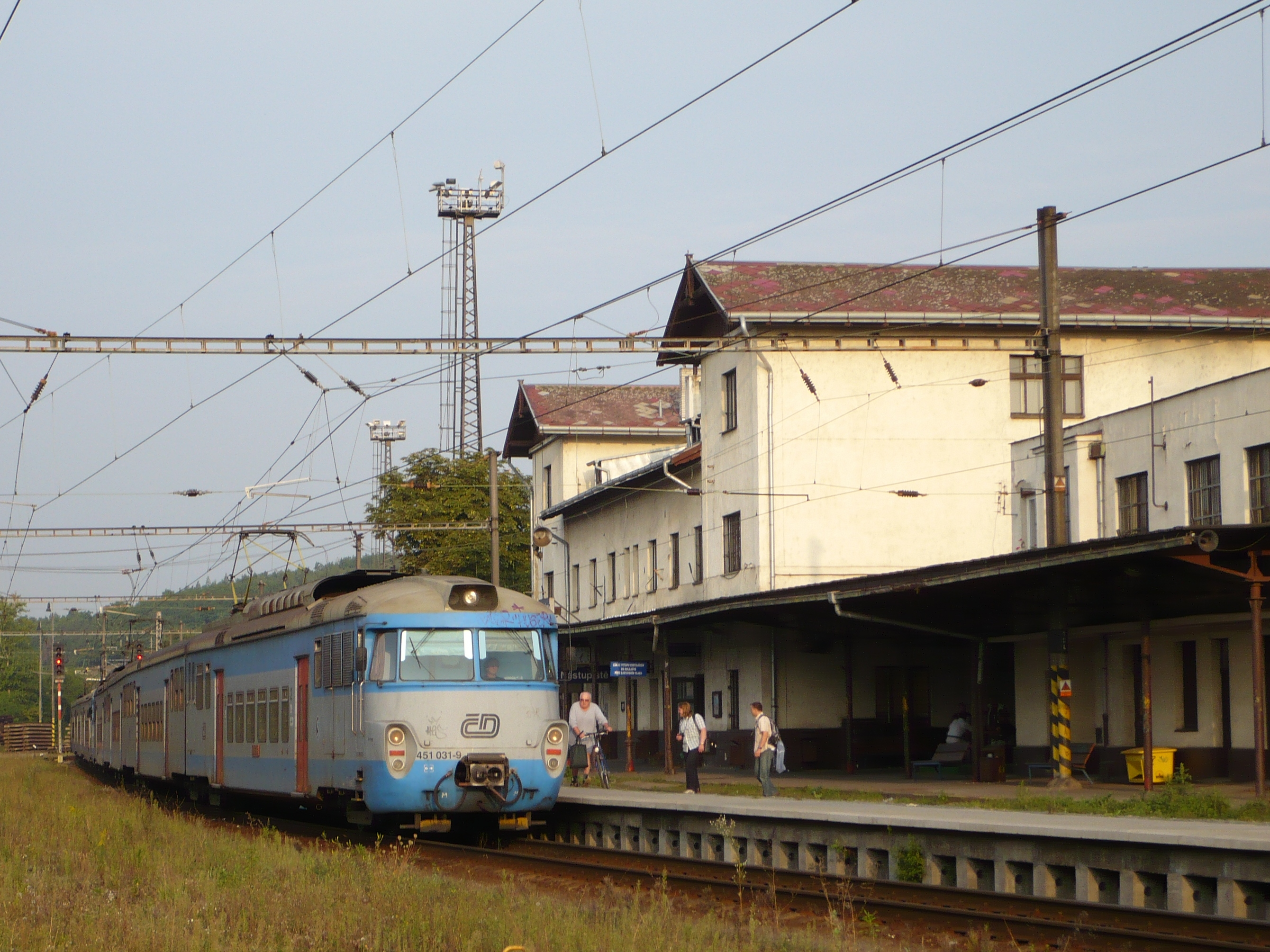 ČD class 451 braking in railway station Prague-Vysočany (morning train No. 9461 to Lysá nad Labem, EMU 451.031-32)